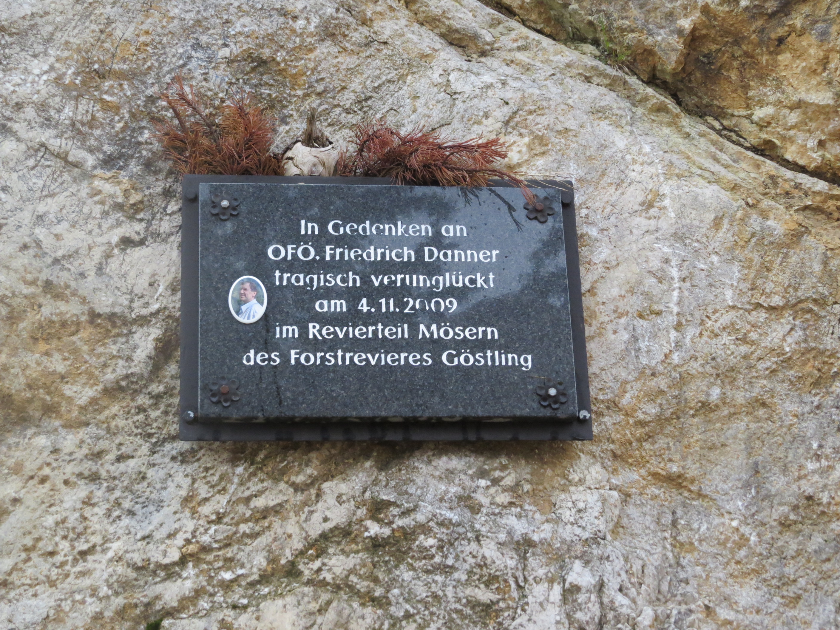 Memory table from Friedrich Danner, husband of Elfi Deufl at Dürrenstein (Ybbstaler Alpen)